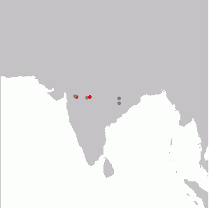 Distribution map of Athene blewitti (syn. Heteroglaux blewitti) generated using BirdSpot 3.5. Red spots for new records and grey spots for historic records